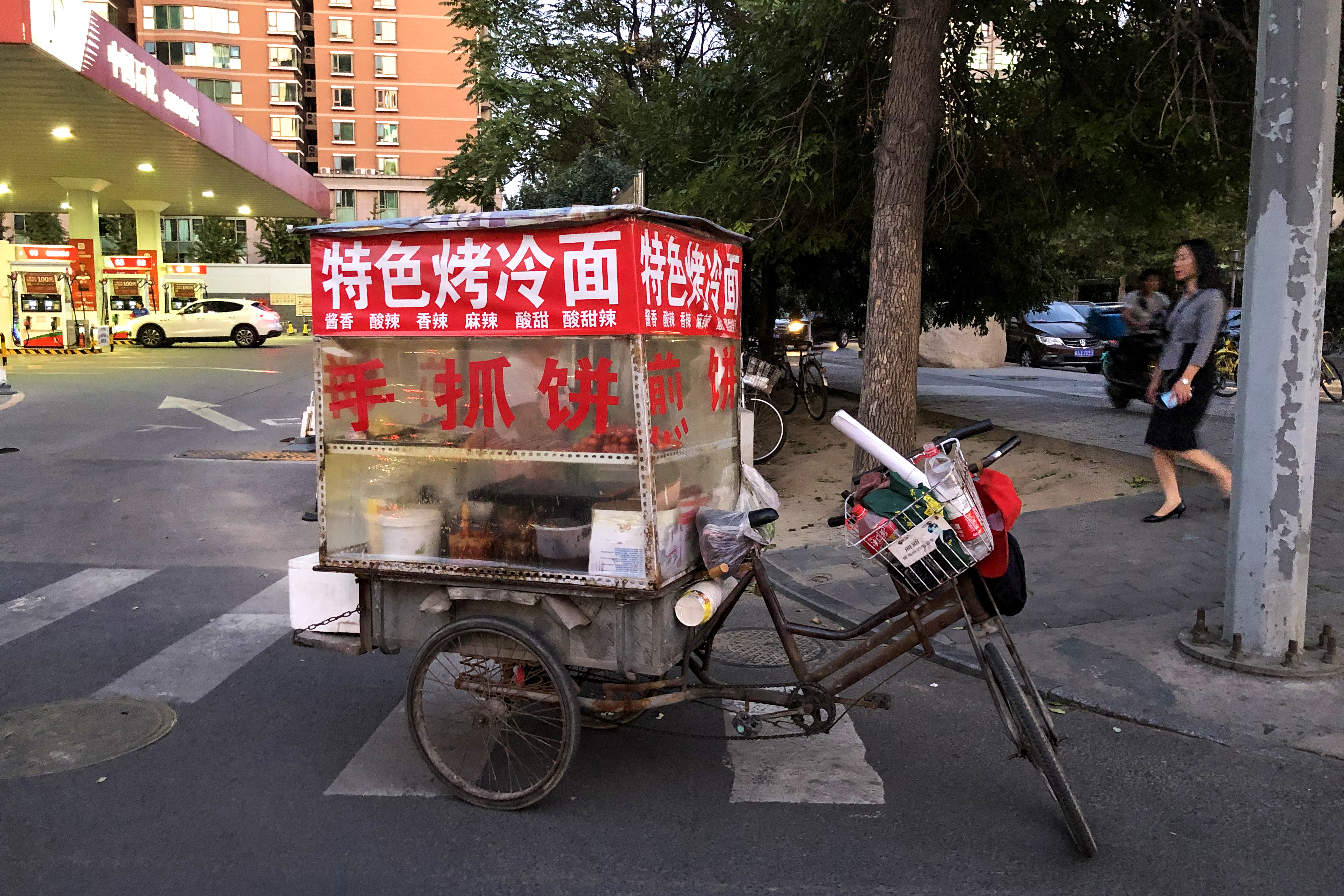 Can't imagine such vendors are still here near 3rd Ring Road. After all, Shilihe is in Shibalidian...